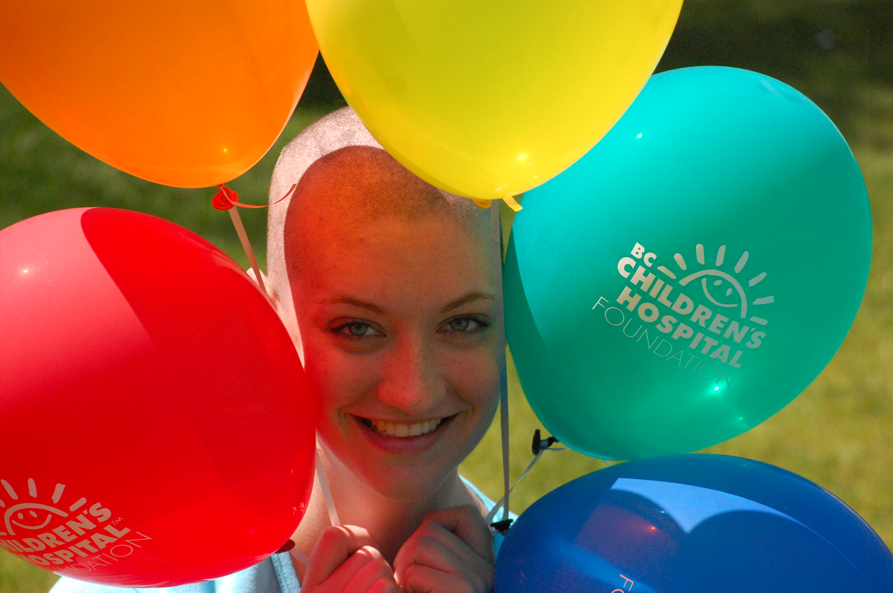 Shaving head to campaign for cancer fight. Raising money by going bald!